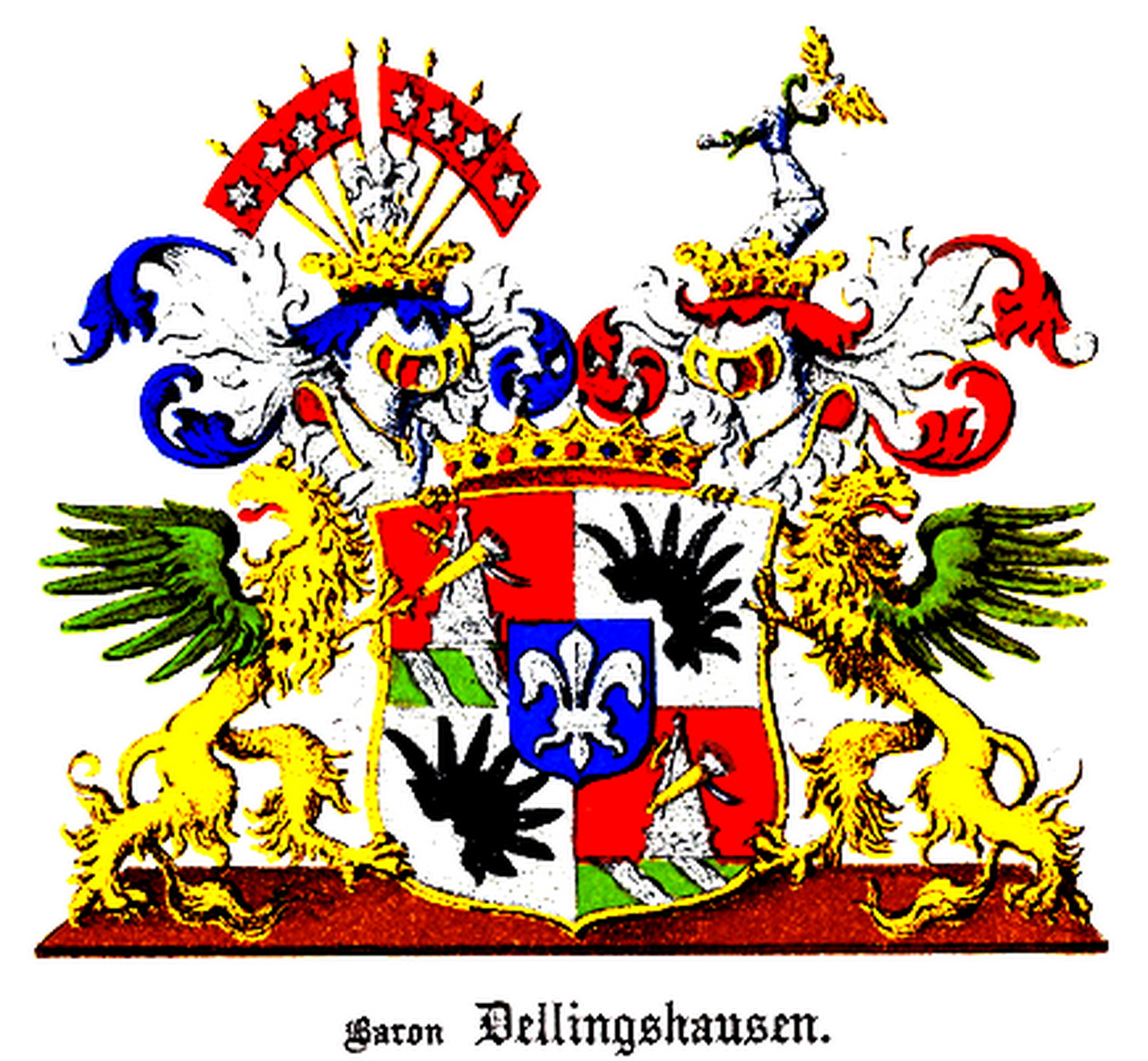 Coat of arms of Dellingshausen family